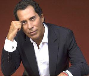 José Vélez vocalist from the Canary Islands.